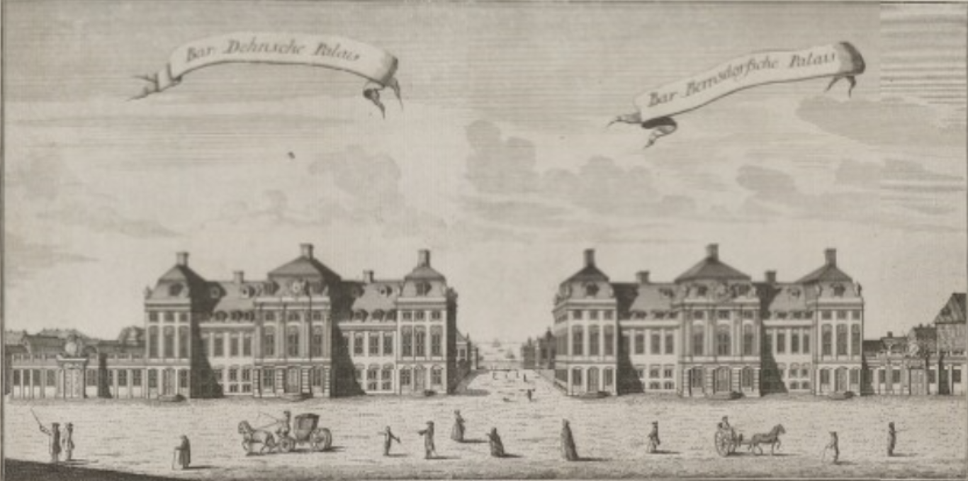 Fehms Palæ amd . Bernsdorfs Palæ in Copenhagen, Denmark